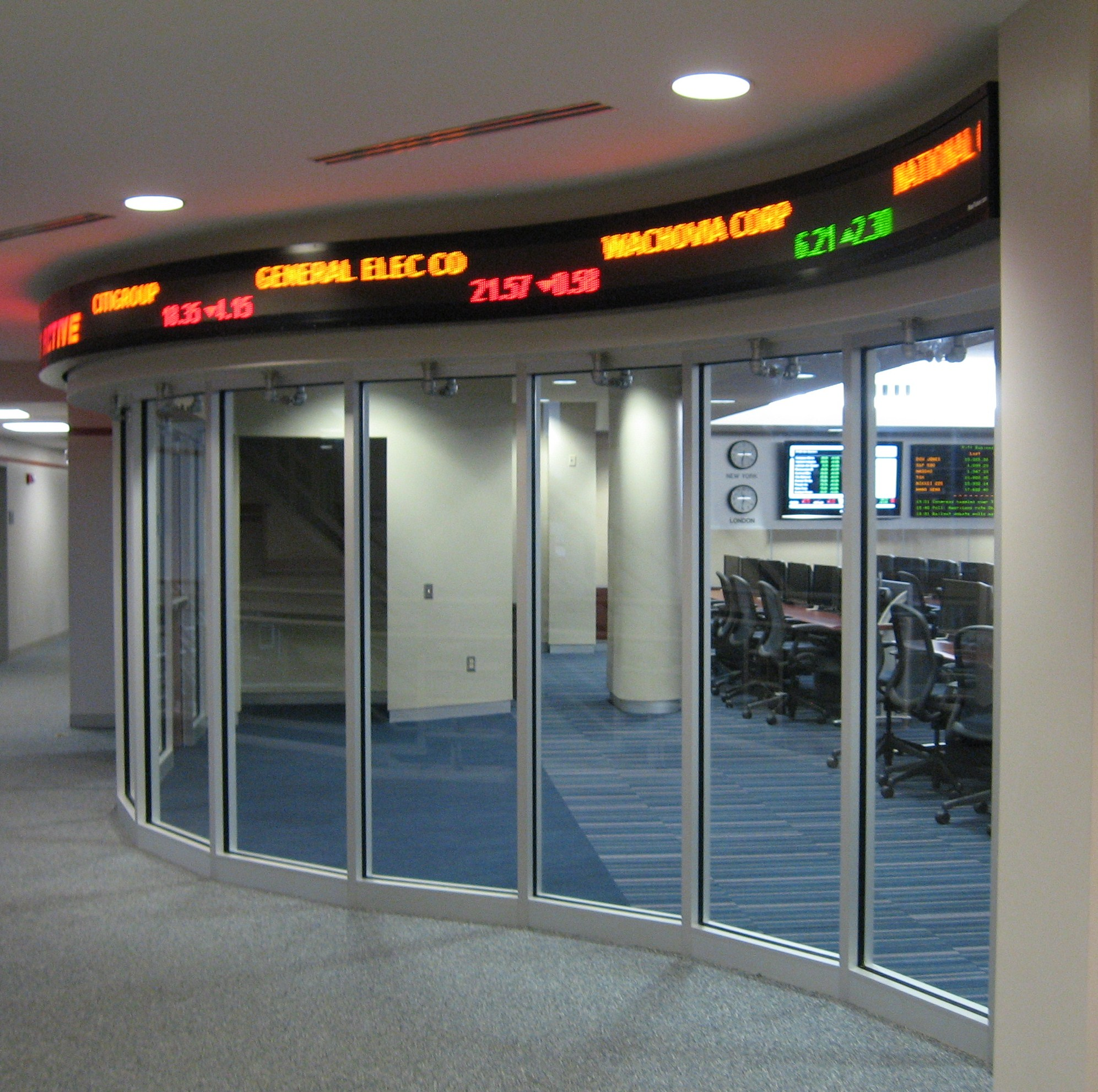 The financial laboratory at Mervis Hall, part of the University of Pittsburgh Katz School of Business 40°26′26.8″N 79°57′11.6″W / 40.440778°N 79.953222°W